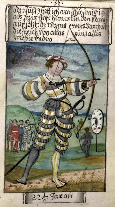 Matthäus Schwarz at the age of 22